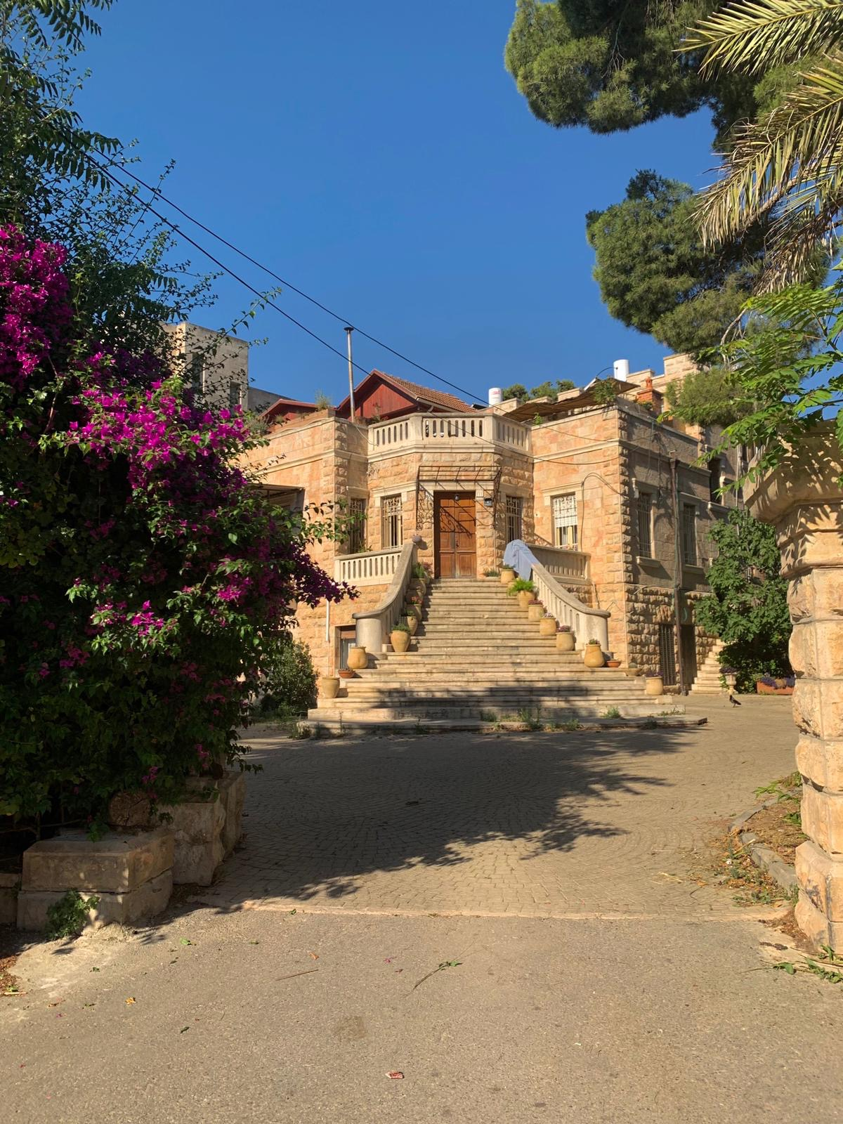 Villa Amin Jamal